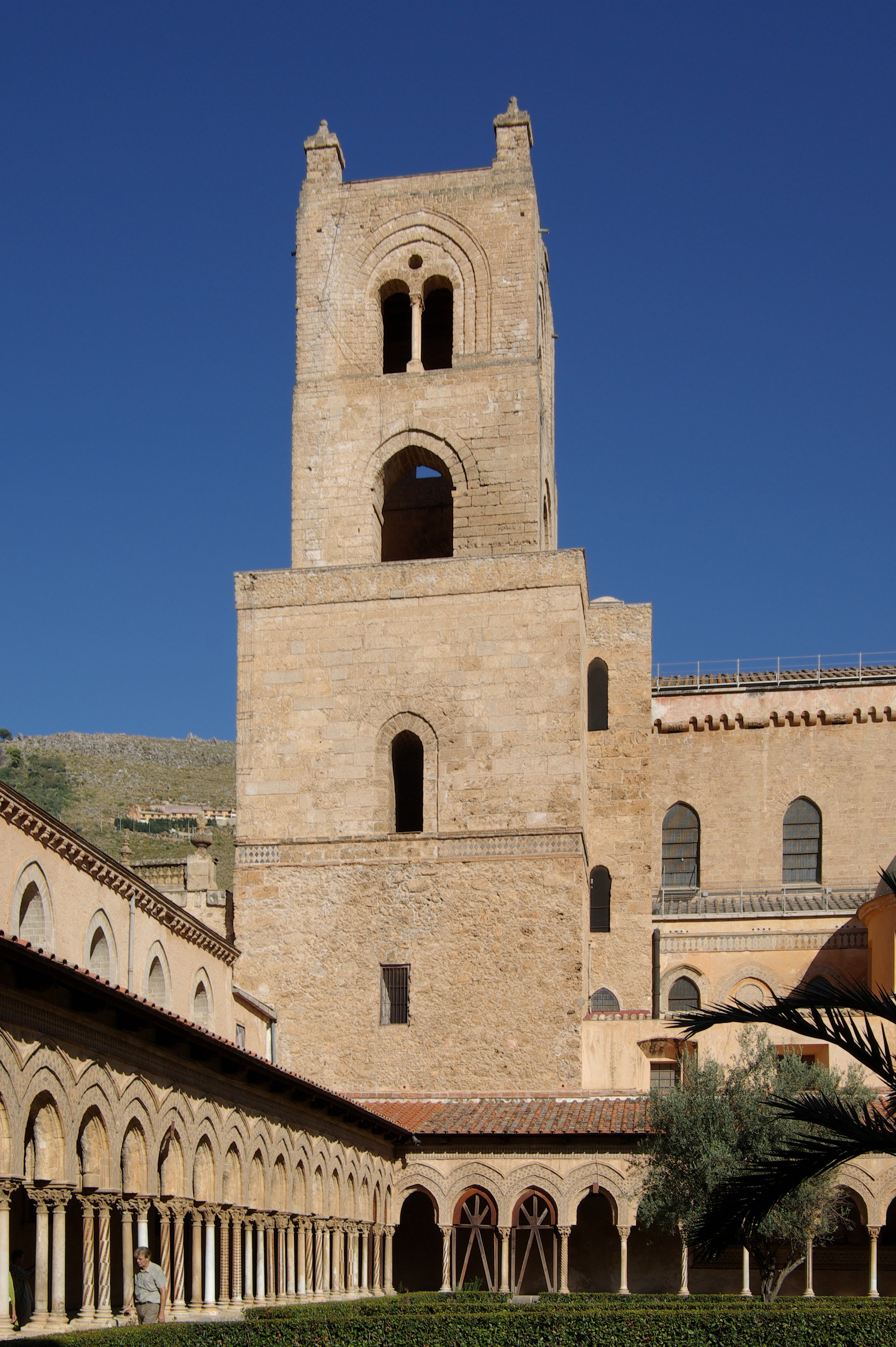 Italy, Sicily, Monreale, Cathedral